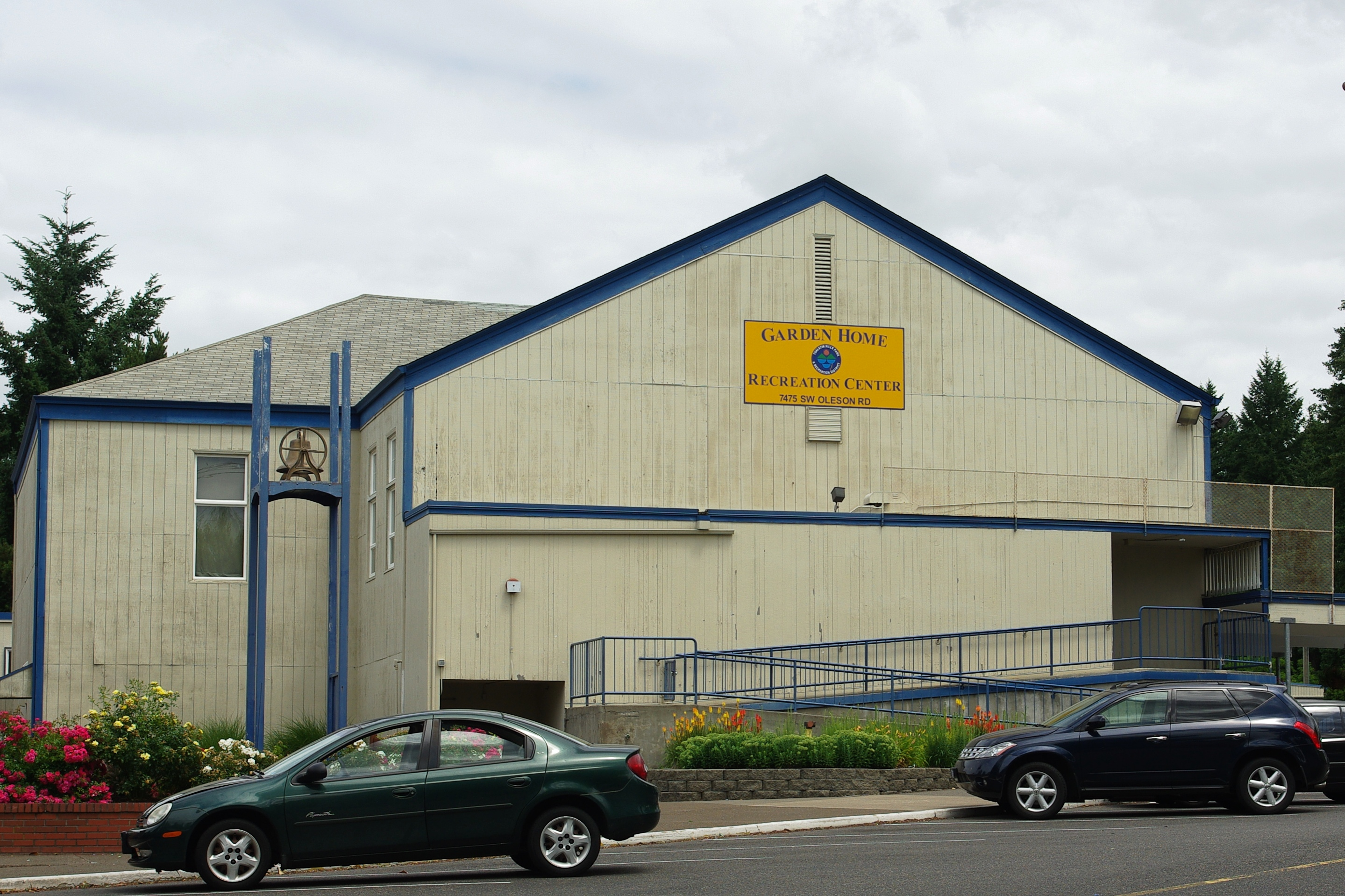 Garden Home Recreation Center near Beaverton, Oregon, operated by the Tualatin Hills Park & Recreation District.